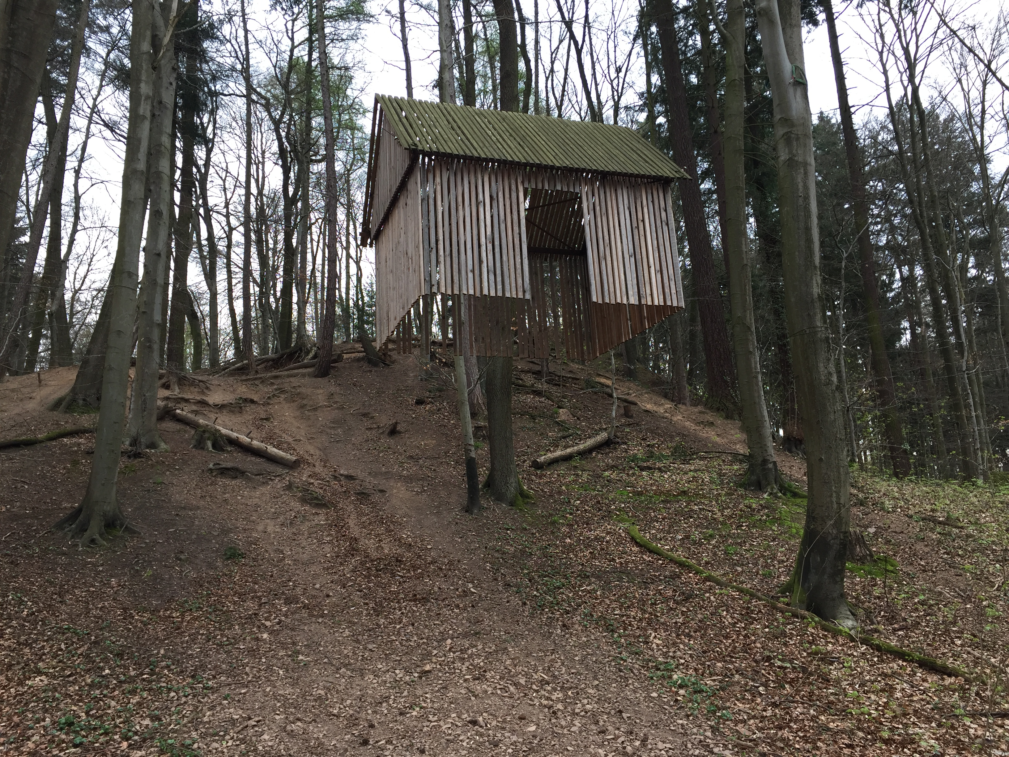 This wooden house, called "Luftschloss" = daydream or castle in the air, was created in 2012 by Anne Berlit. The house is three meter up between trees in the forest of Darmstadt, Germany.